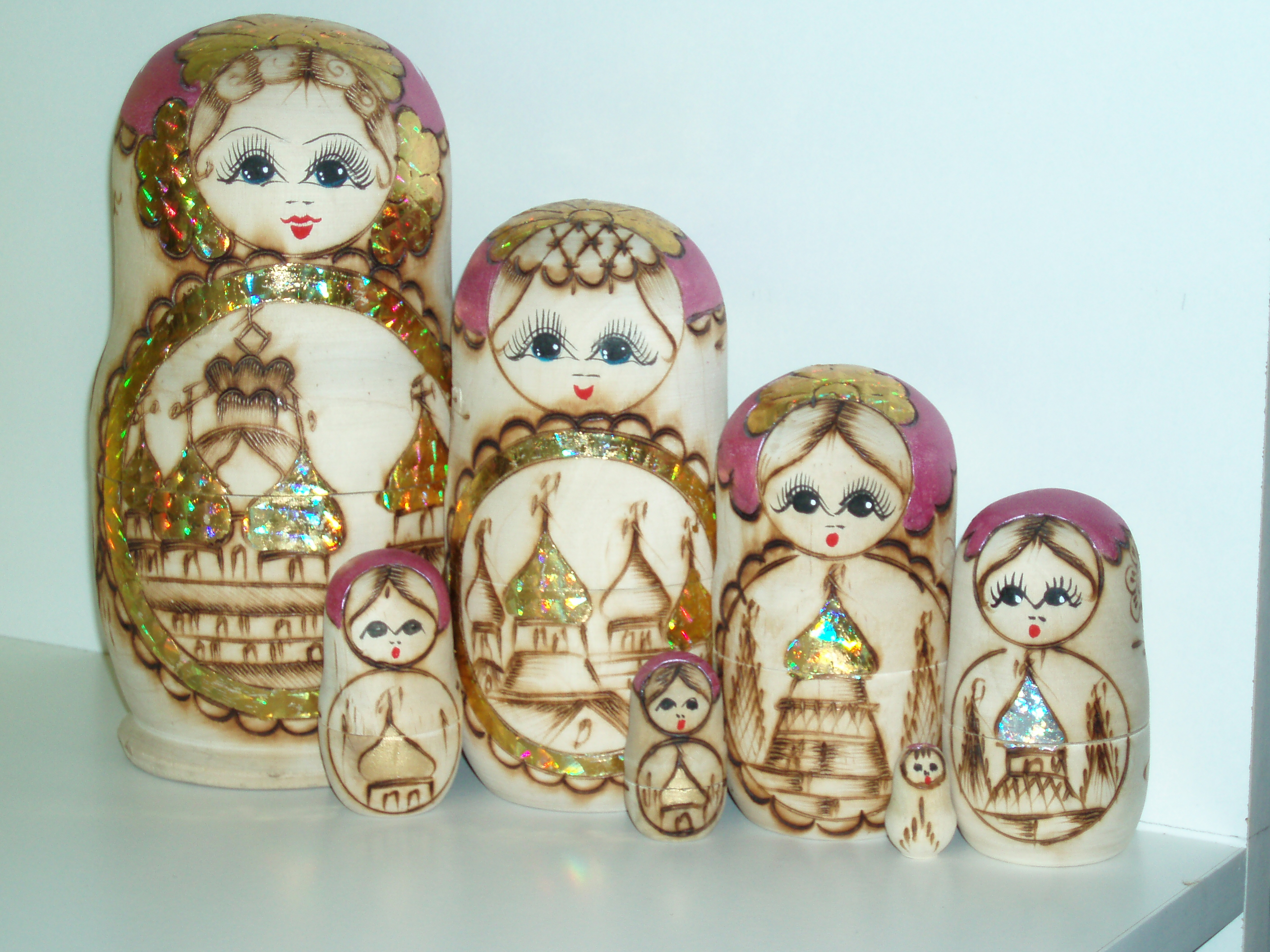 Author: User:Mhrmaw